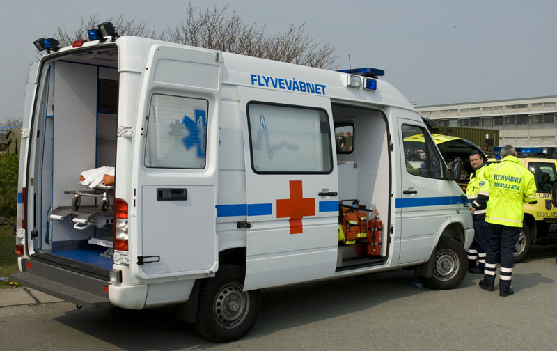 Danish air force MB Sprinter ambulanceDansk: Mercedes Sprinter ambulance fra flyvevåbnet